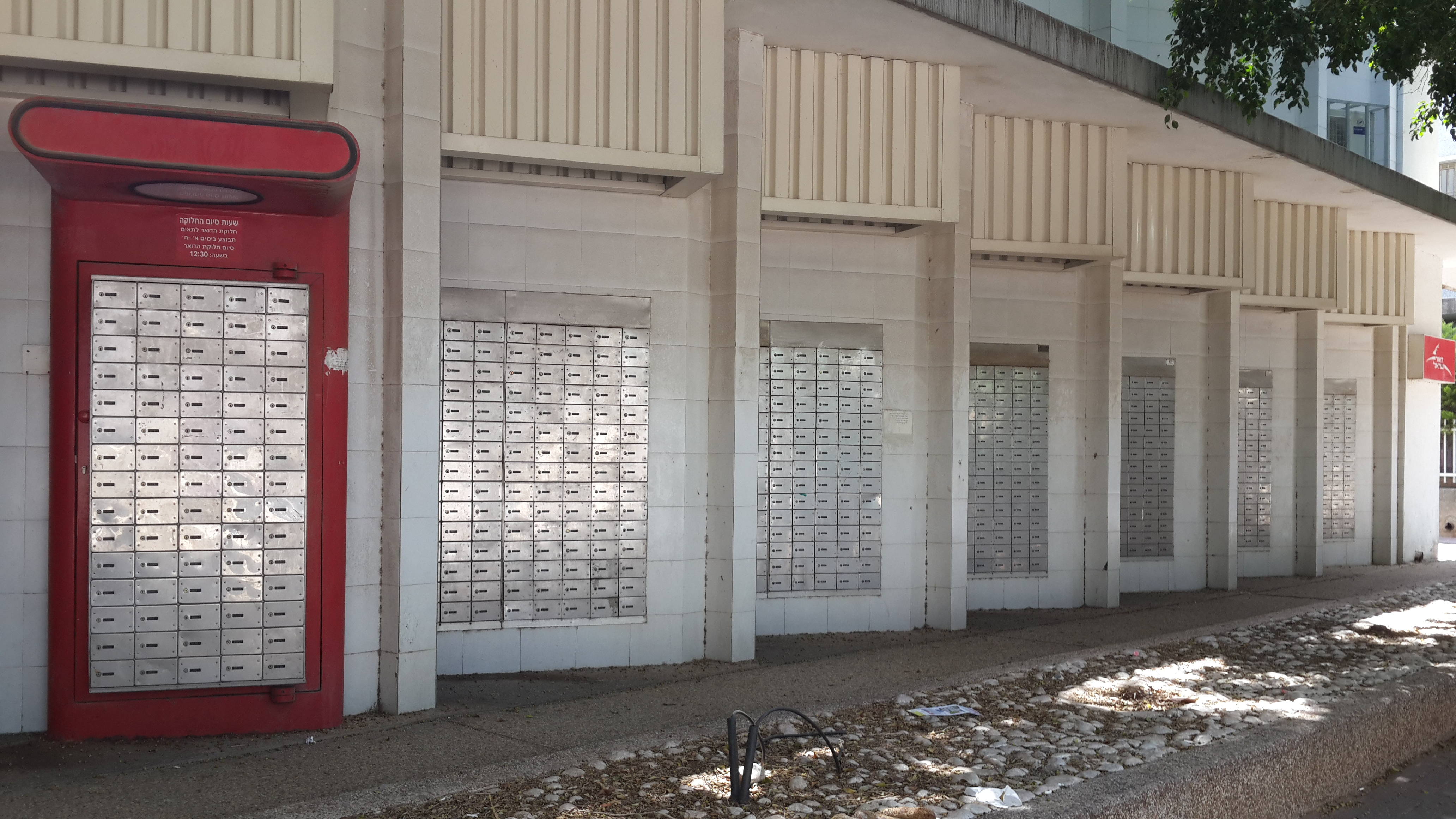 Head post office in Petah Tikva (P. O. Boxes)